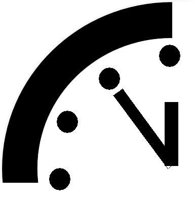 Drawing of Doomsday clock established by Board of Directors of Atomic Scientist Bulletin.